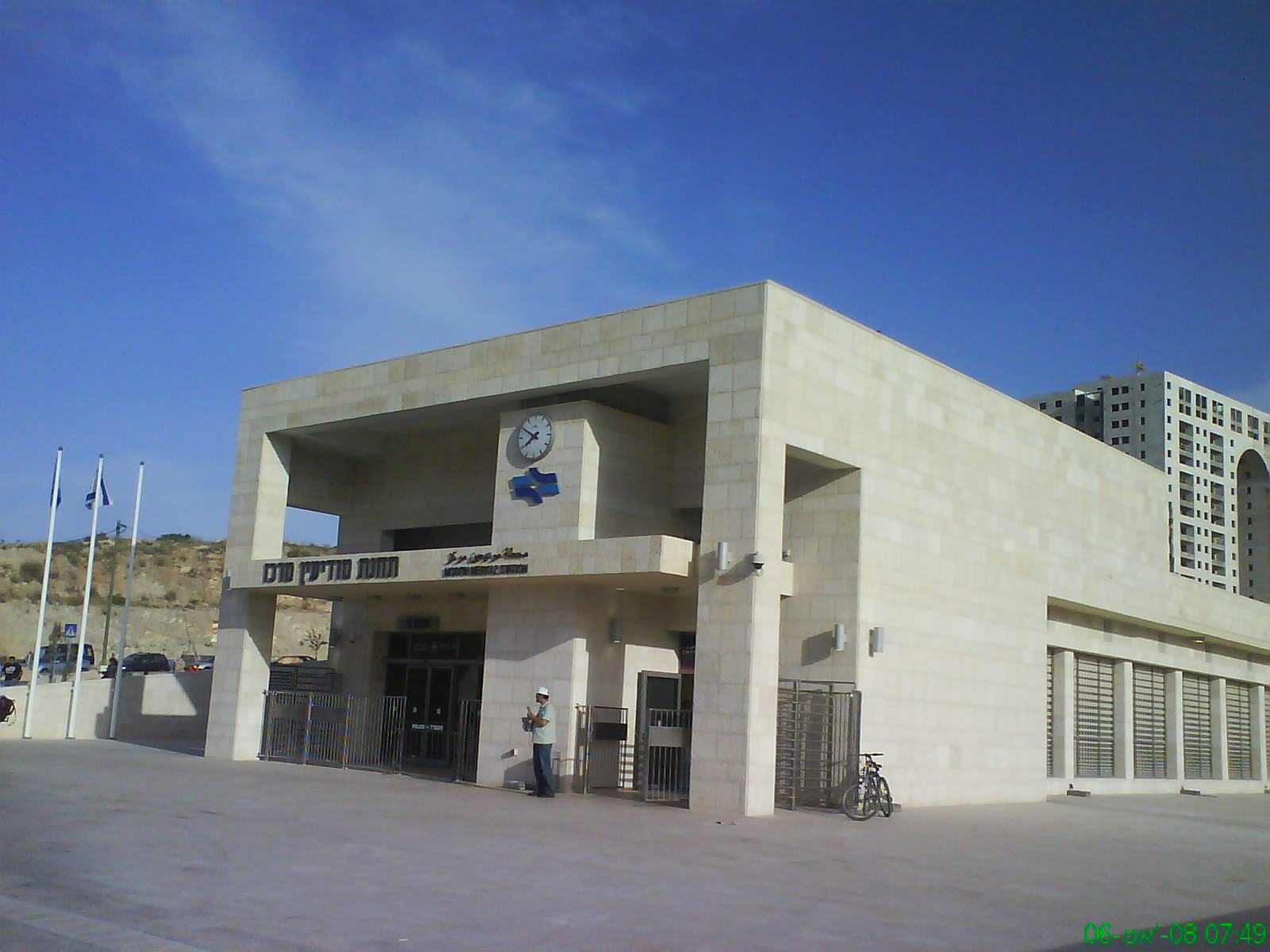 Modiin railway station